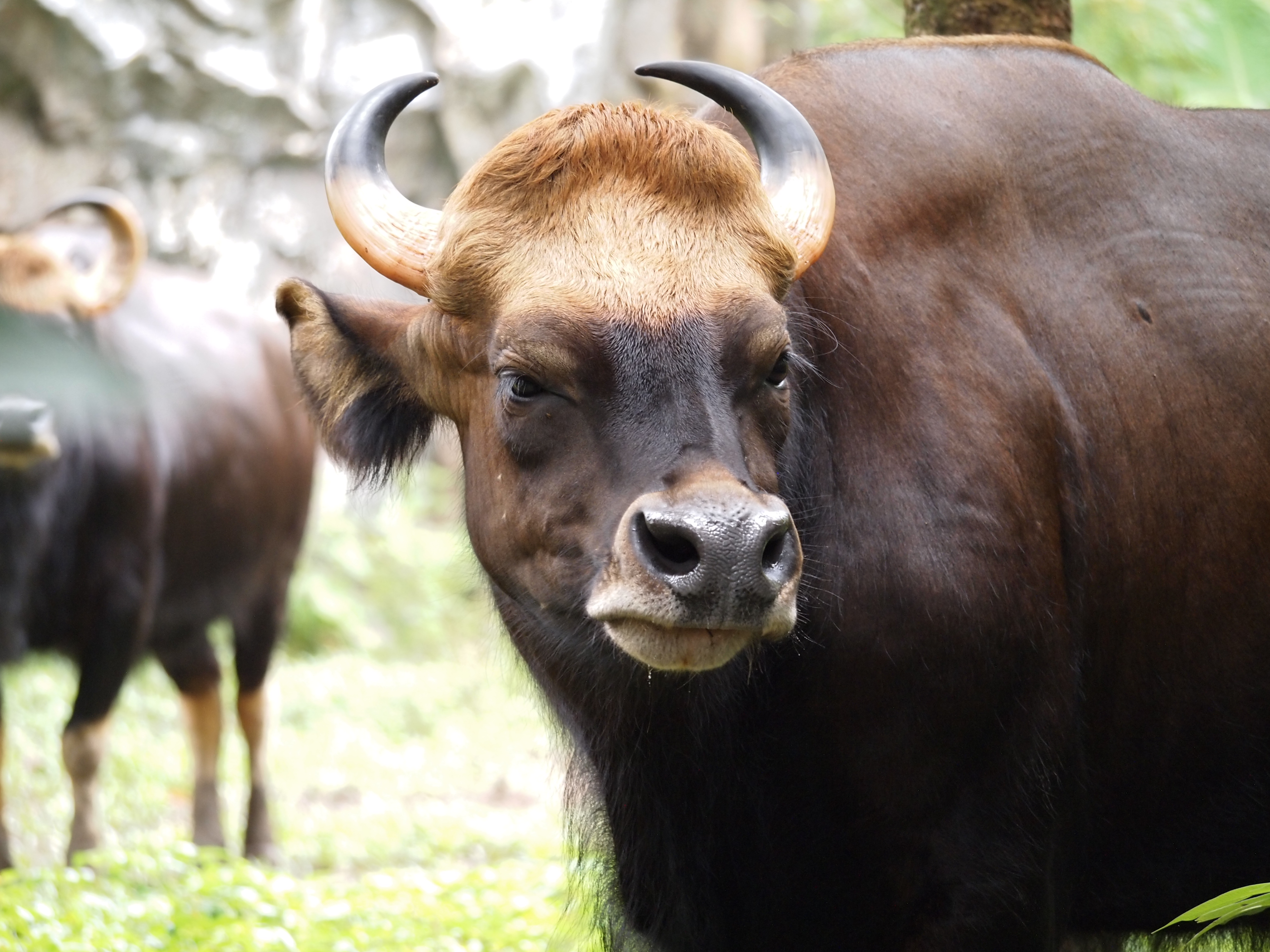 Selembu in Malaysia National Zoo